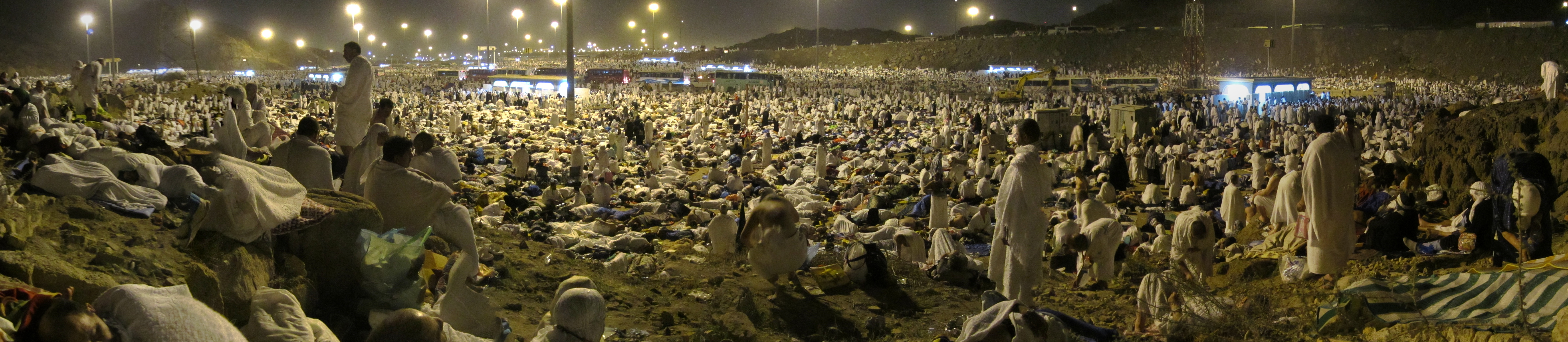 Panoramic view of a part of the area of Muzdalifah in Hajj time.